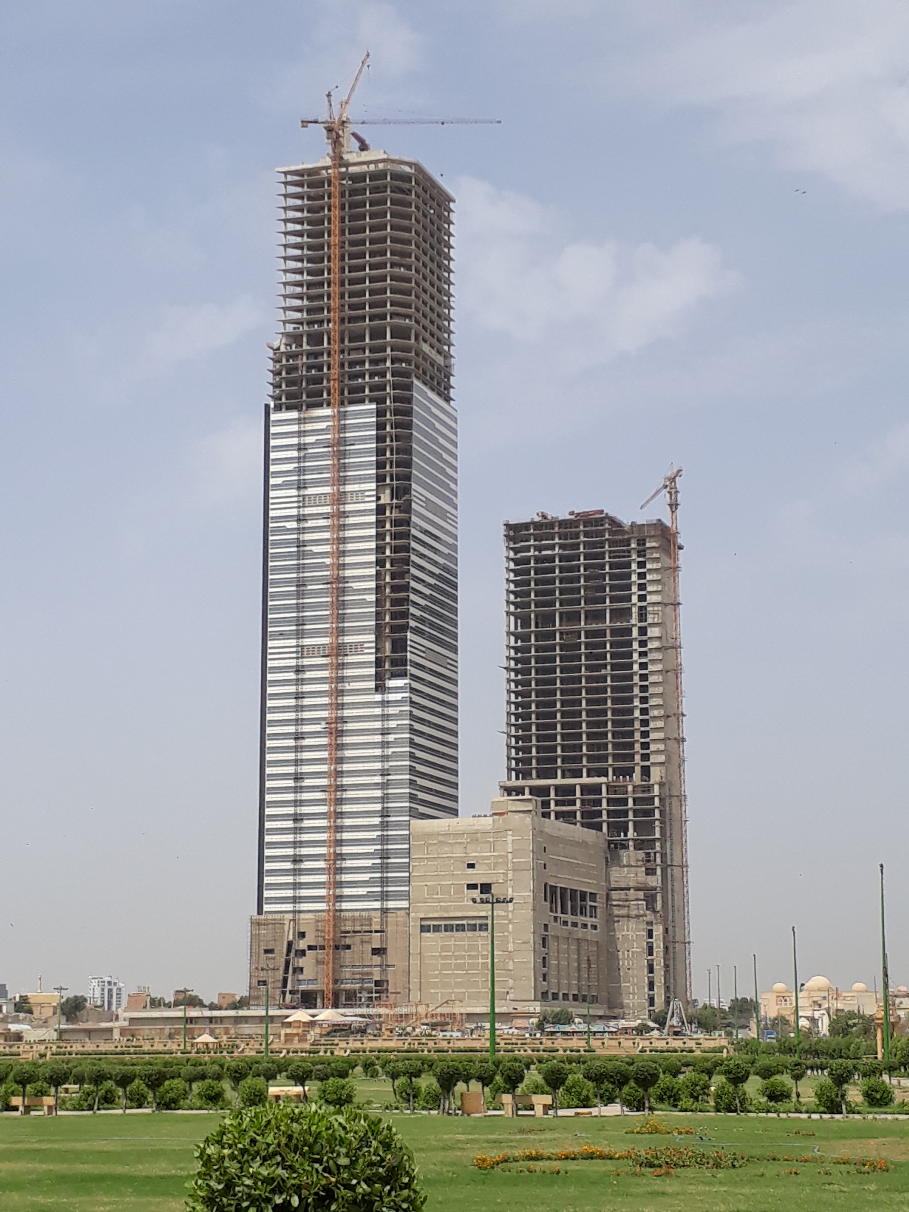 Tallest building in Pakistan, currently under construction